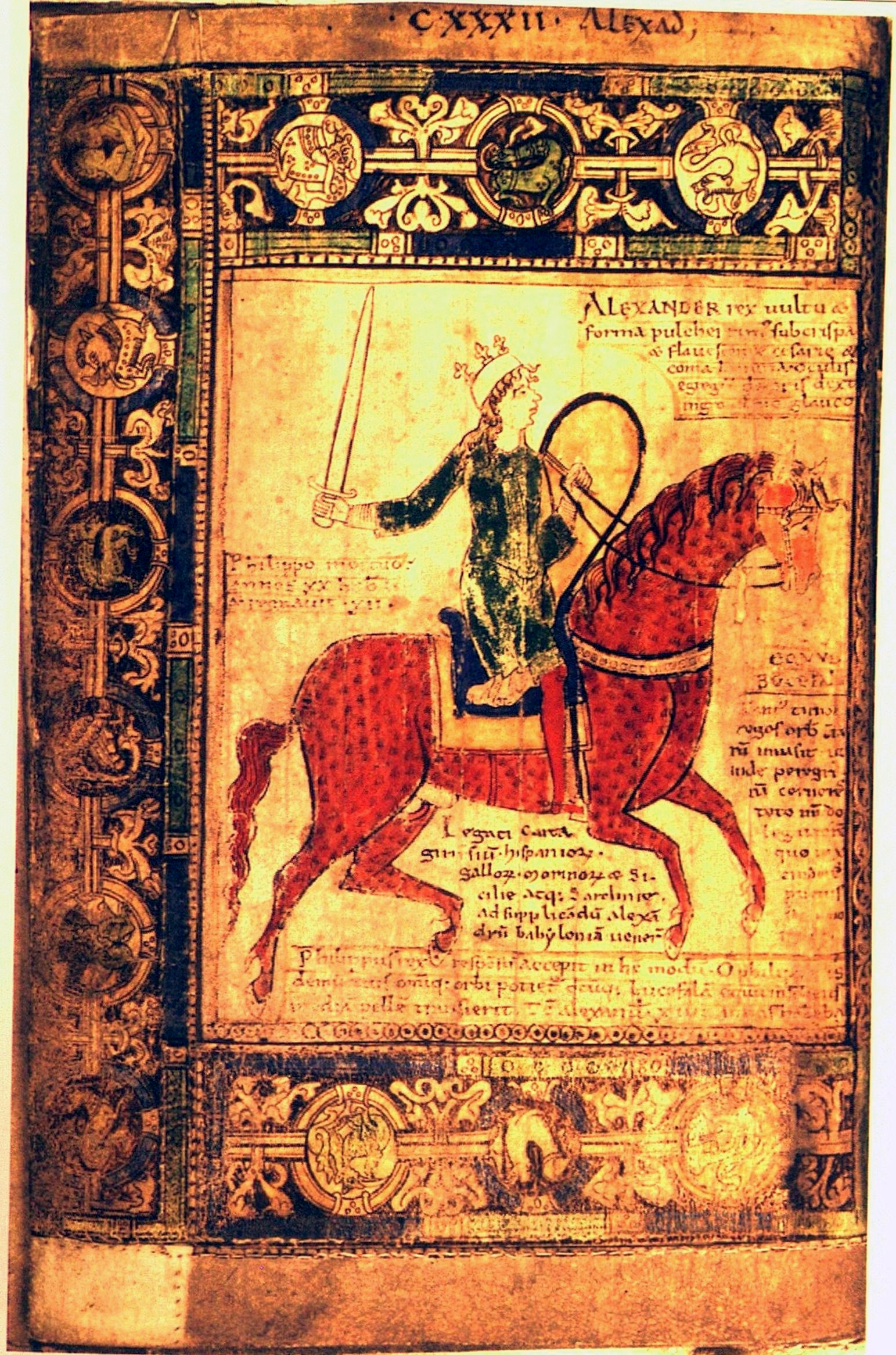 Alexander the Great, book illumination in a manuscript of the „Liber floridus“: Ghent, Universiteitsbibliotheek, Ms. 92, fol. 153v.